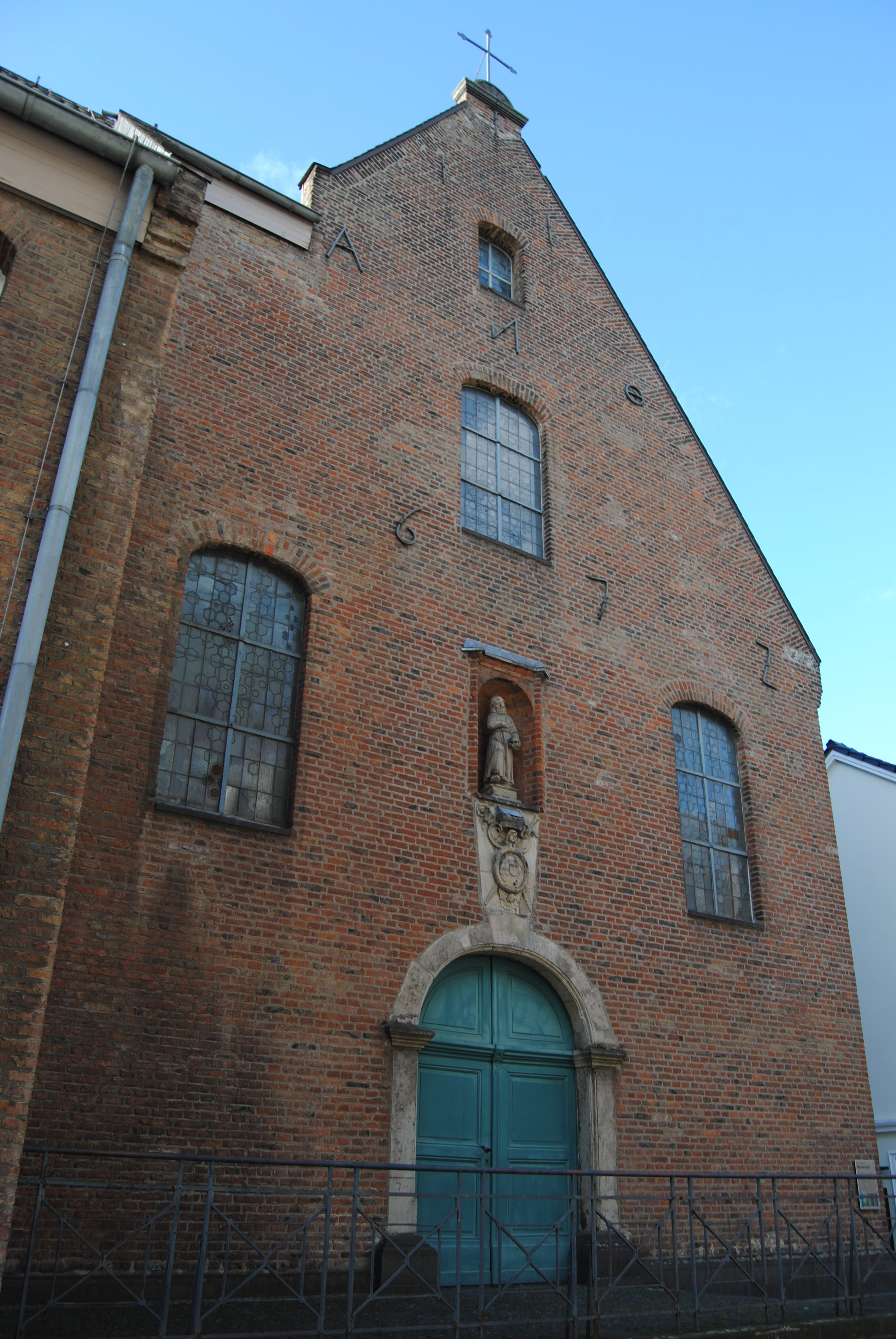 This photograph was taken with a Nikon D3000. This image shows a heritage building in Germany, located in the North Rhine-Westphalian city Düsseldorf (no. 12).